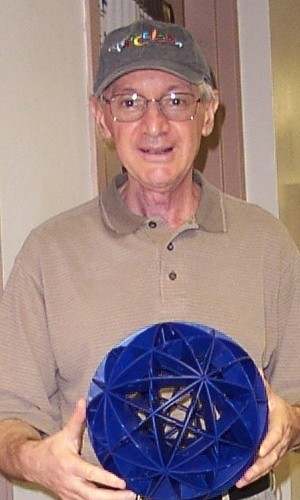 This is a picture of porfessor Italo Jose Dejter of the mathematics department of University of Puerto Rico in Rio Piedras